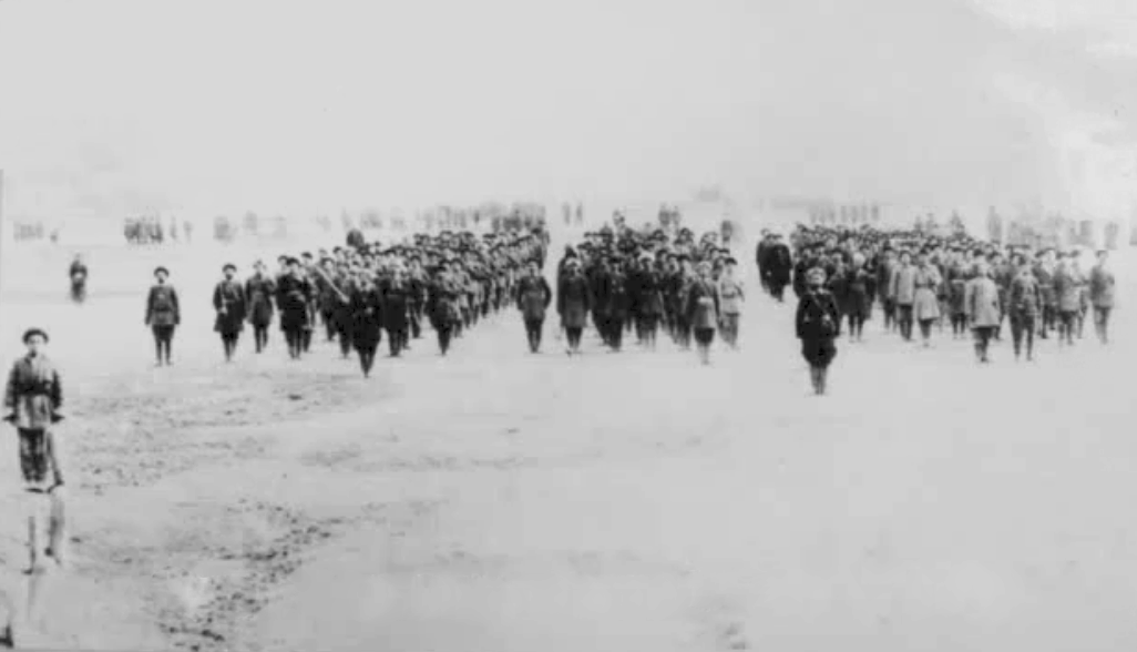 Uyghur reinforcements from Khotan marching towards Kashgar 1933-1934